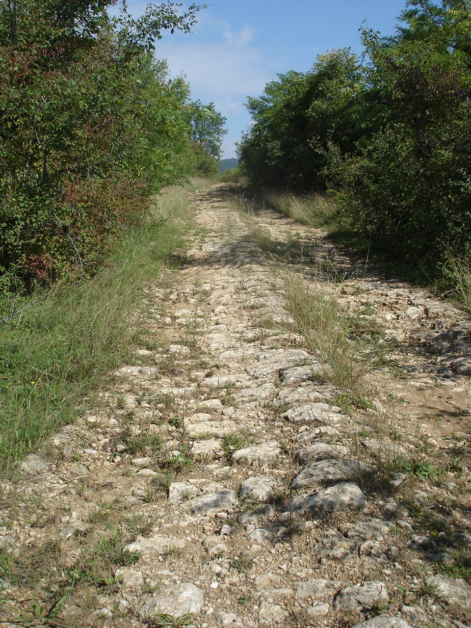 Short stretch (165 m) of the ancient Roman road in Romania, between the spa Geoagiu-Băi and the hamlet Poienari